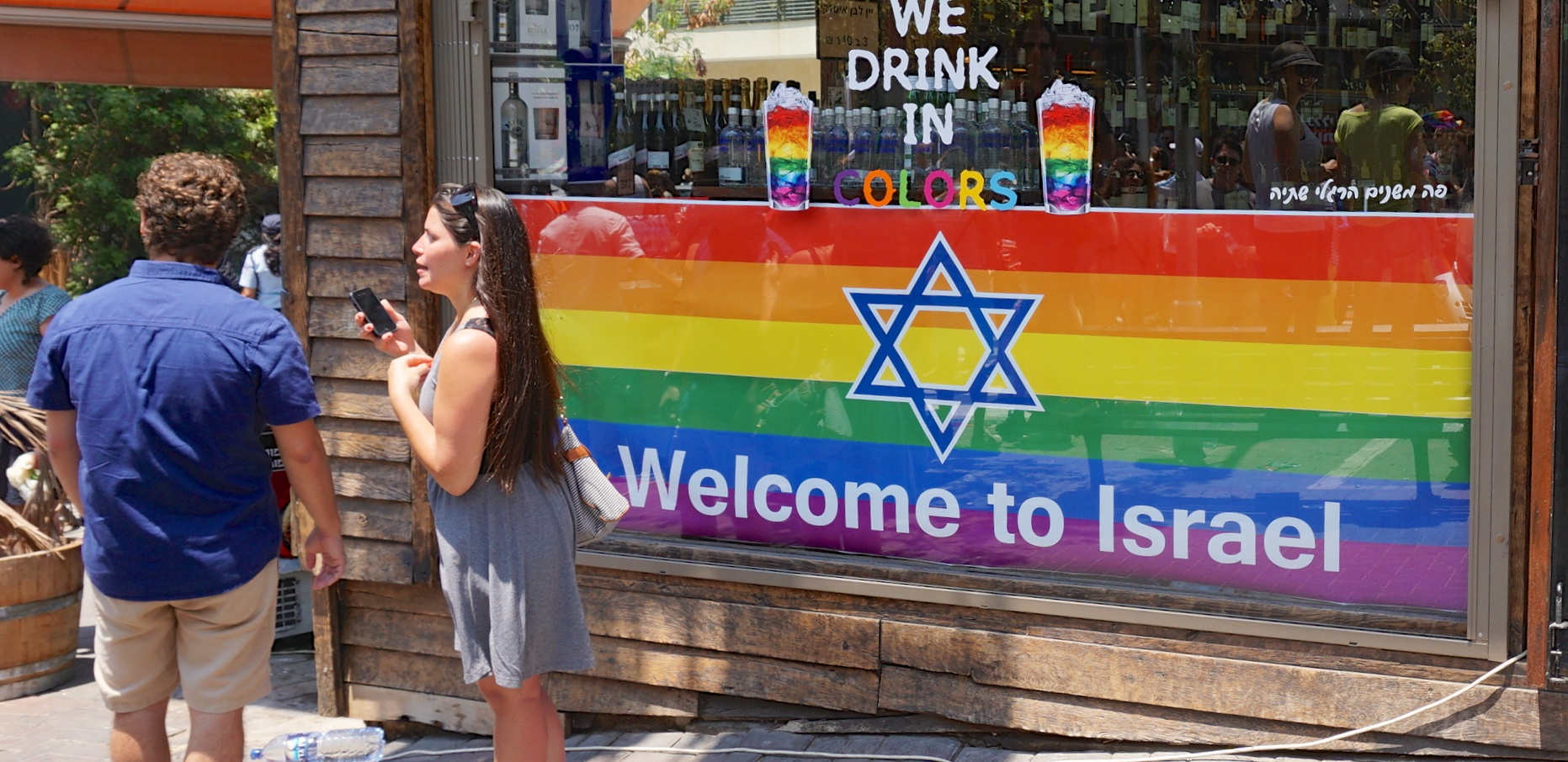 Tel Aviv Pride (Hebrew: גאווה תל אביבית) is an annual, week-long series of events that celebrate the LGBT community life, which is held the second week of June. The most attended event is the Pride Parade.